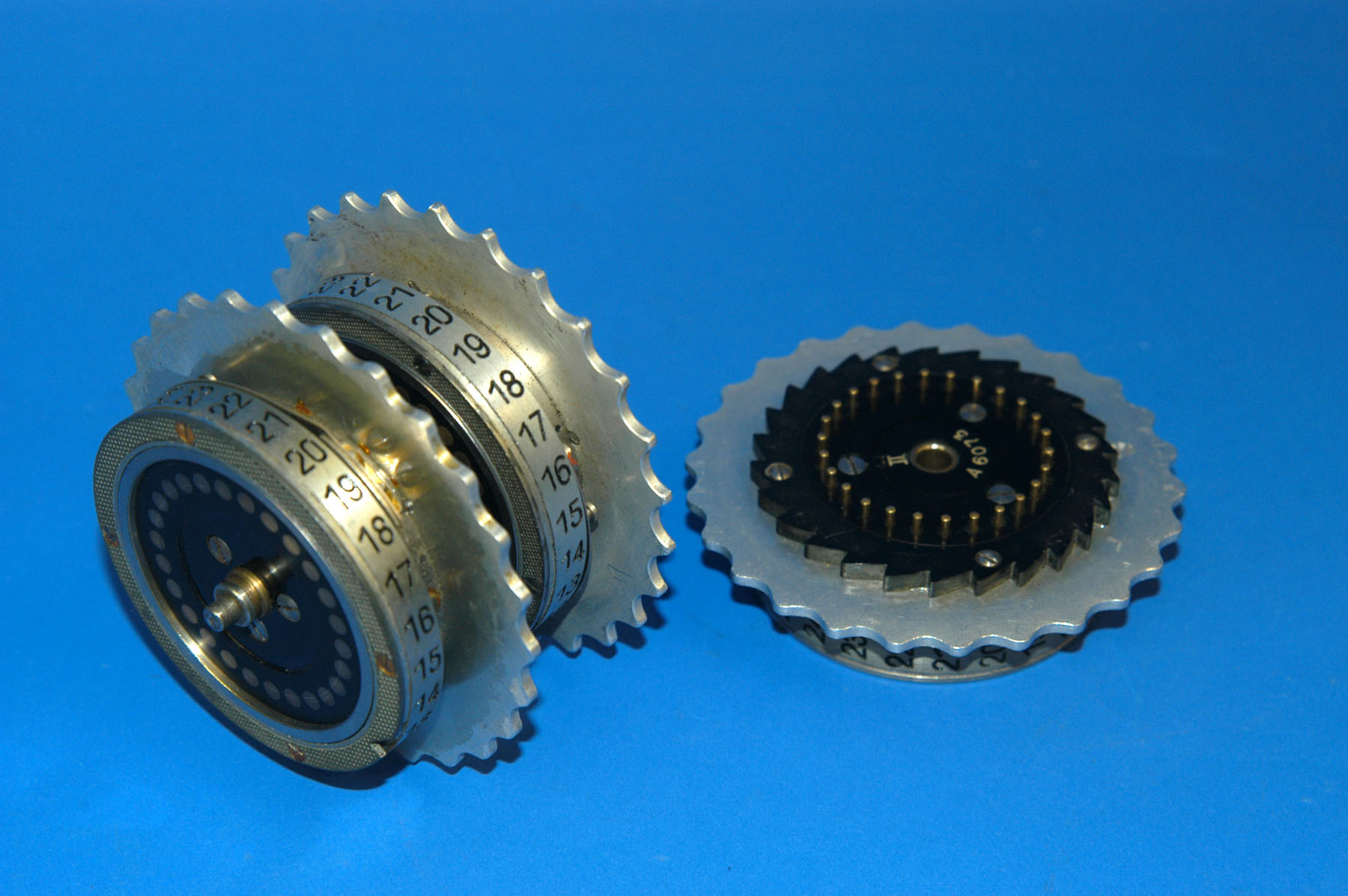 sample rotor from German Enigma cypher machine